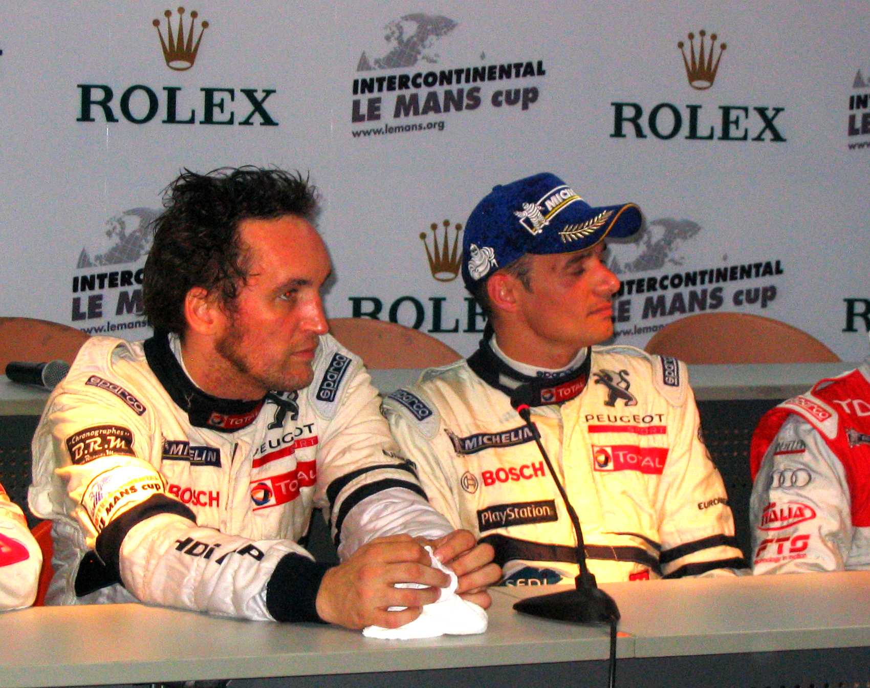 Intercontinental Le Mans Cup Zhuhai LMP1 winners Franck Montagny and Stéphane Sarrazin.